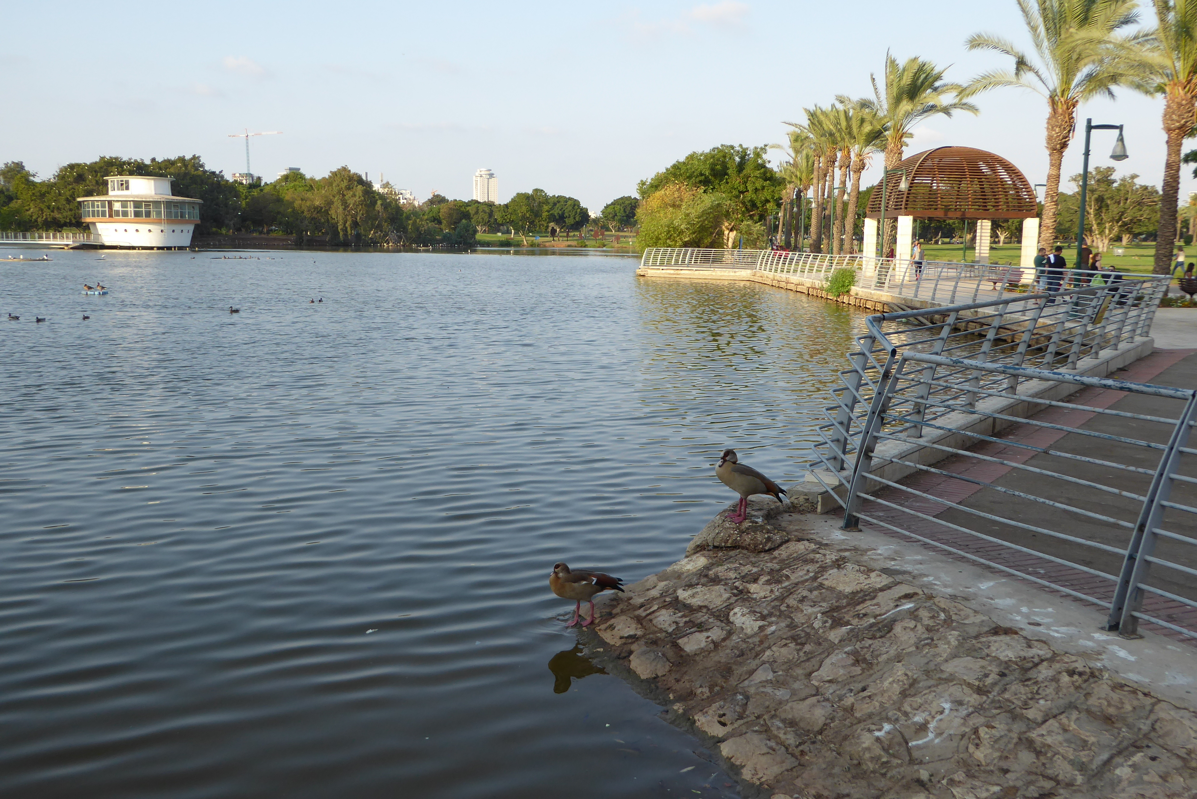 Birds of Ramat Gan, National Park, Ramat Gan